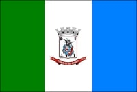 Flag of the city of Rio Grande, Rio Grande do Sul, Brazil.